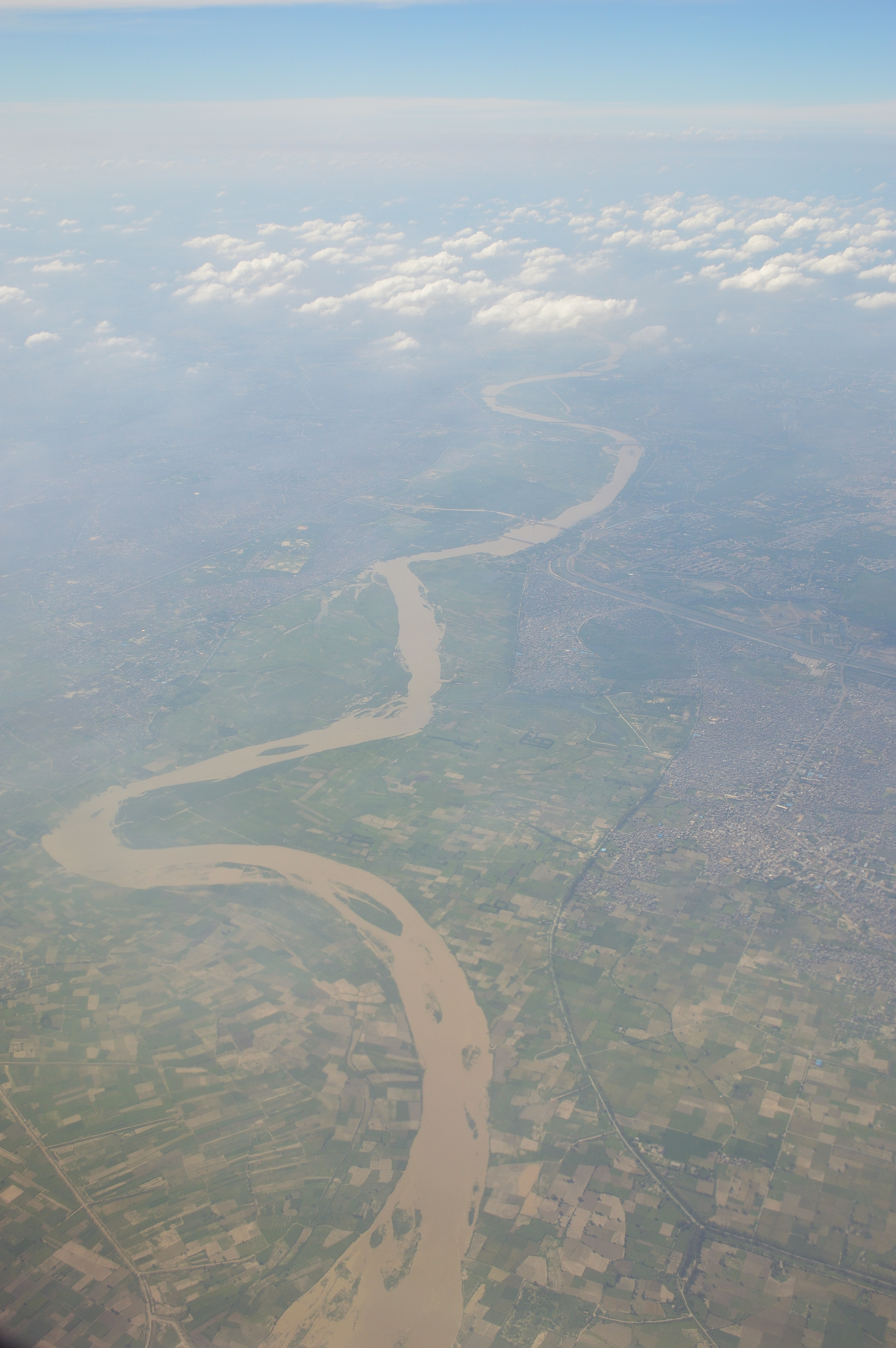 This photograph was taken in India.